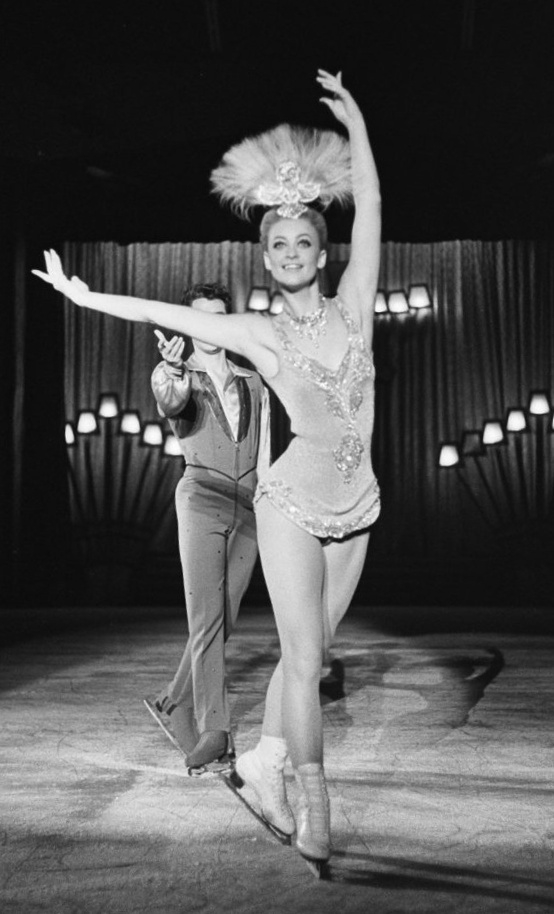 Marika Kilius (Hans-Jürgen Bäumler behind her)